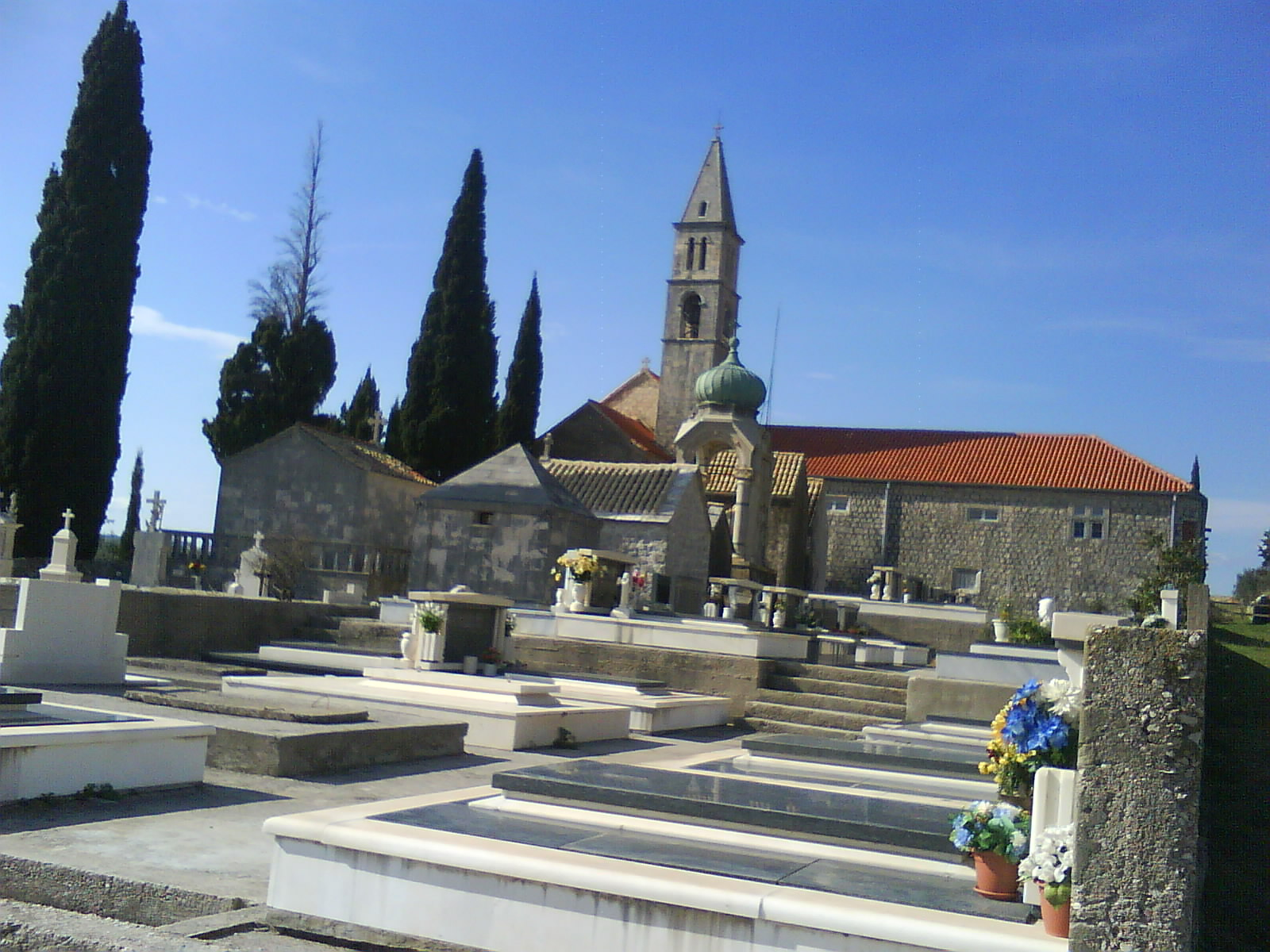 Franciscan church, monastery and cementery, on the hill abovew Orebićnear Orebić